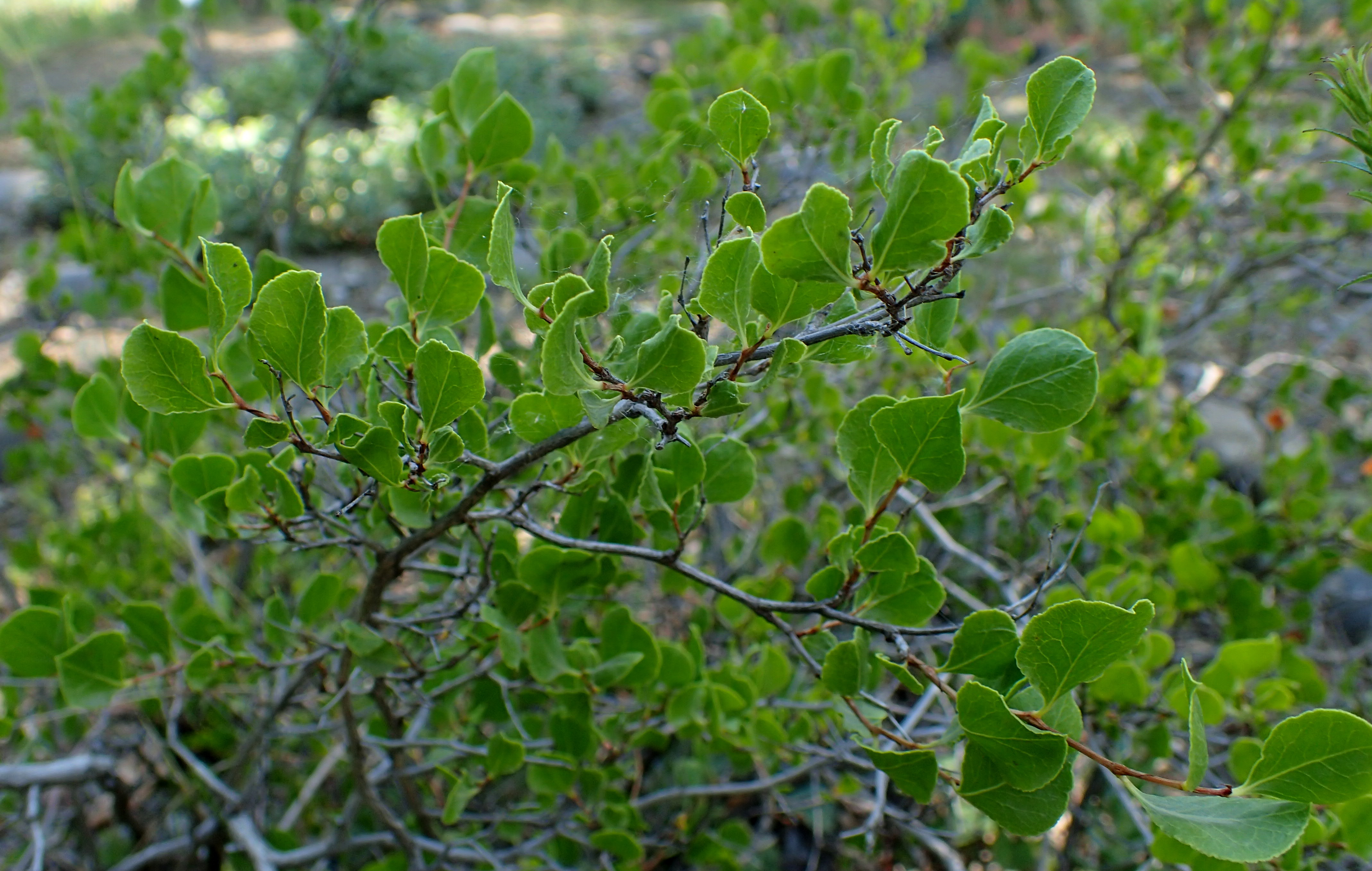 Atraphaxis caucasica in Botanical Garden in Tbilisi